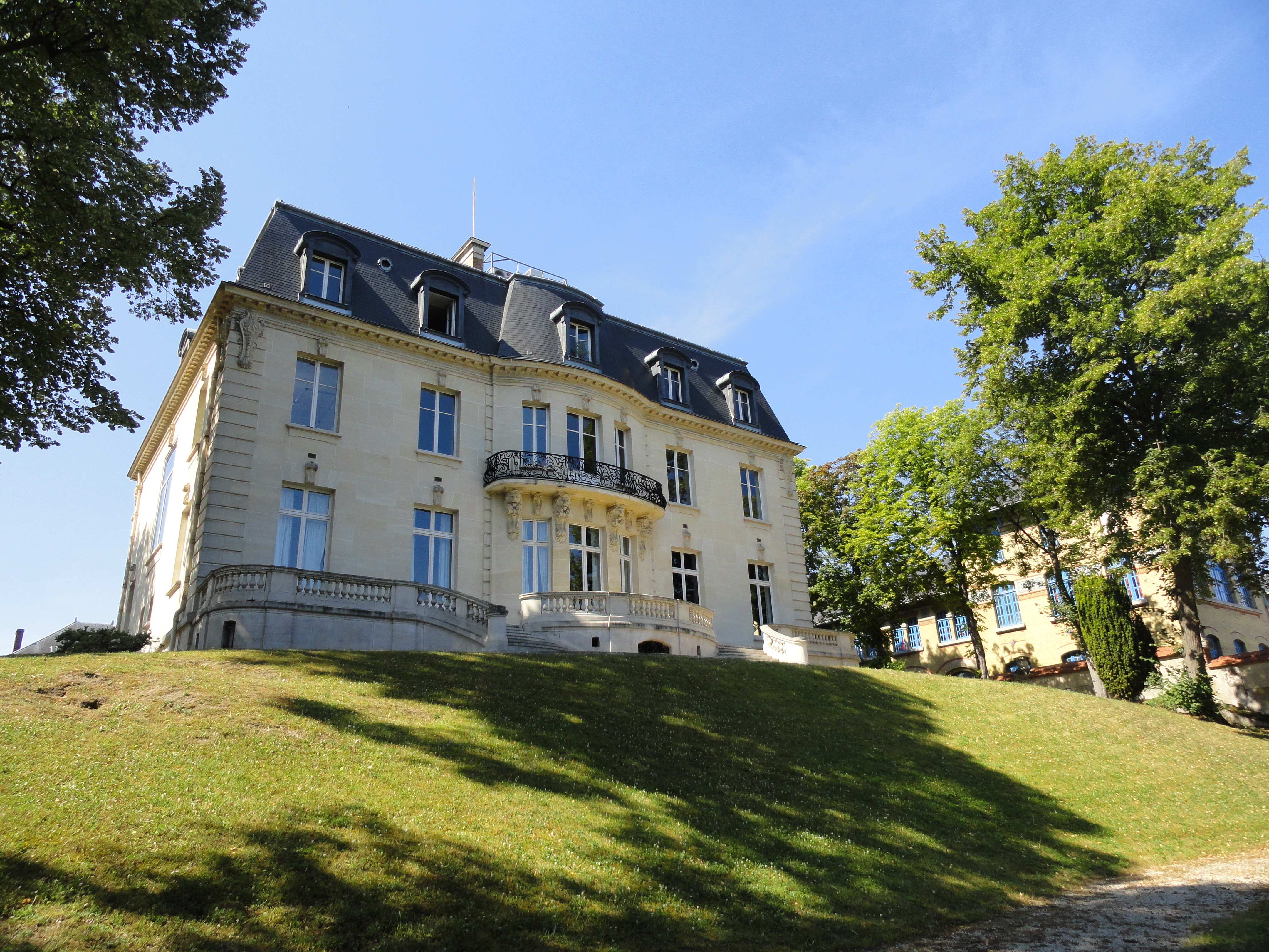 Maison Gallice in Épernay